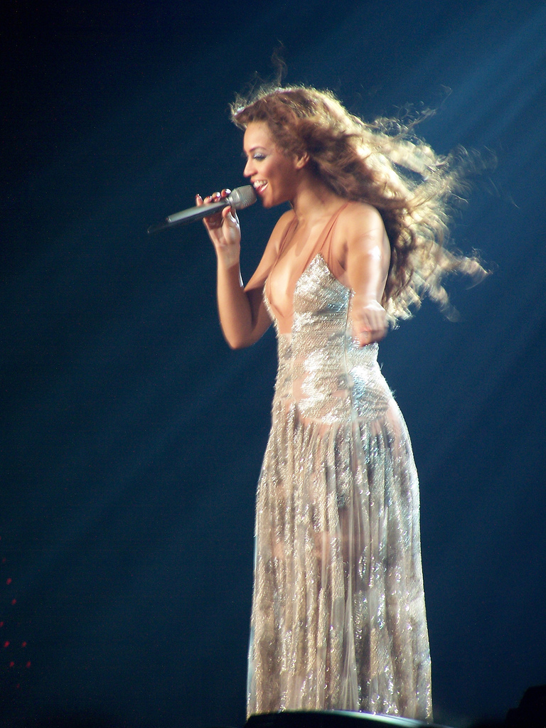 Beyoncé - Concert in Barcelona in 2007